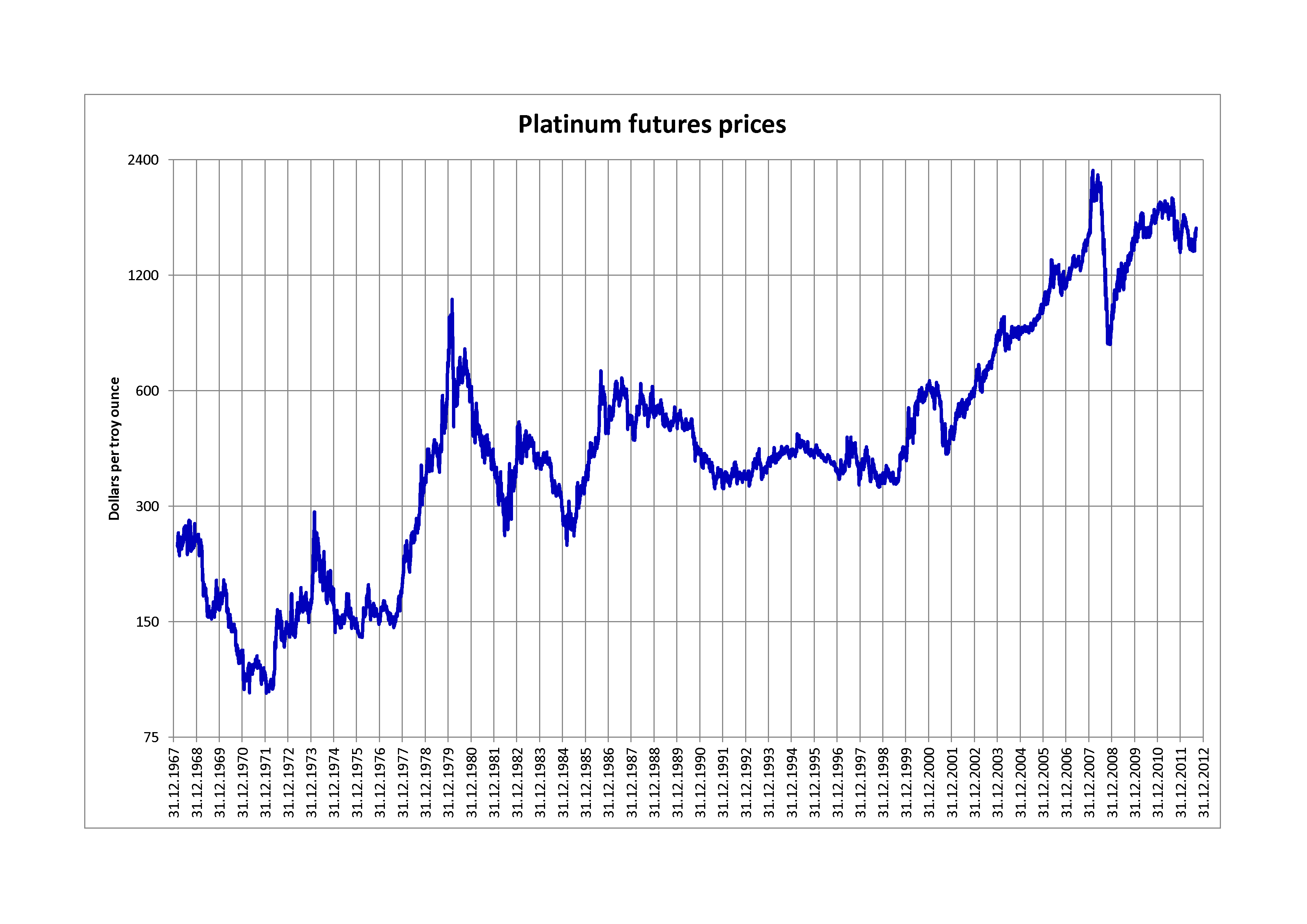 Platinum price from March 1968 to September 2012 in dollars per troy ounce (daily closings)